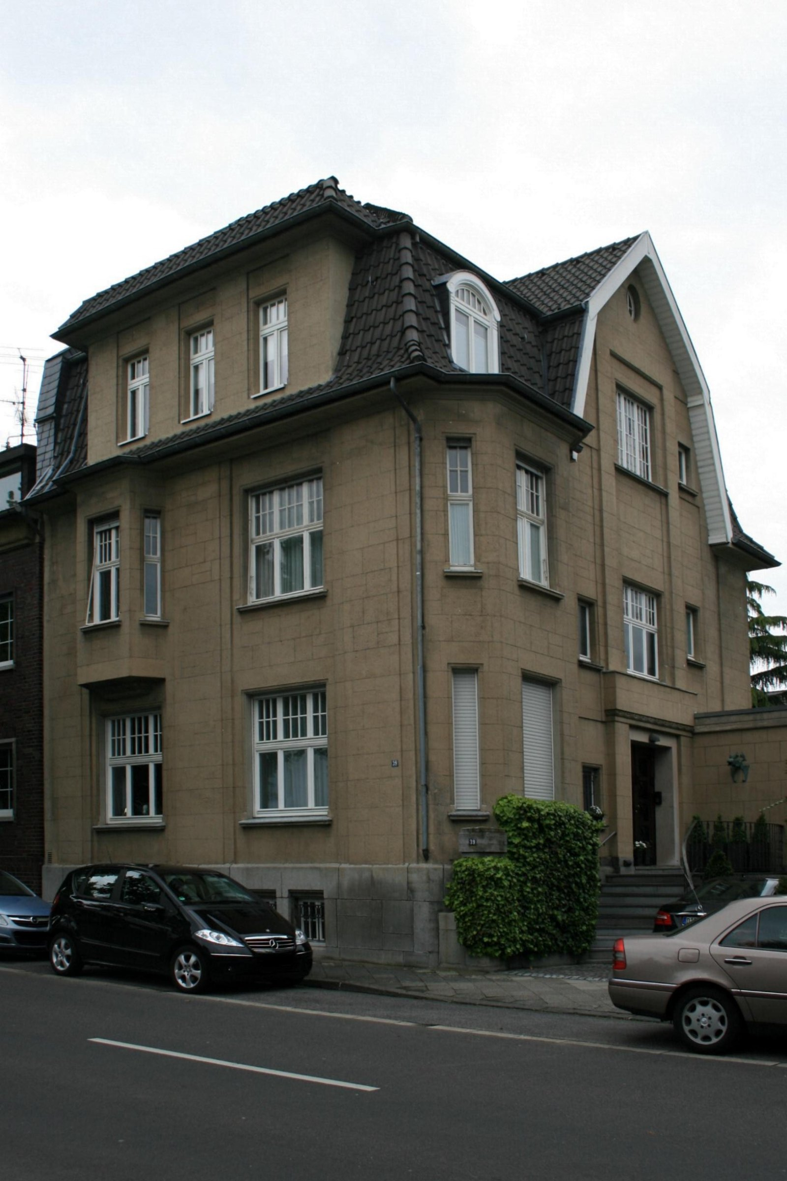 Cultural heritage monument No. B 026 in Mönchengladbach